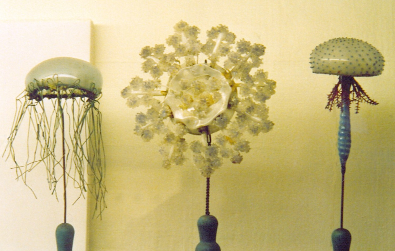 Sea animals, glass objects by Leopold Blaschka (1822 - 1895), Museo di Storia Naturale e del Territorio, Calci (Province Pisa), Italy